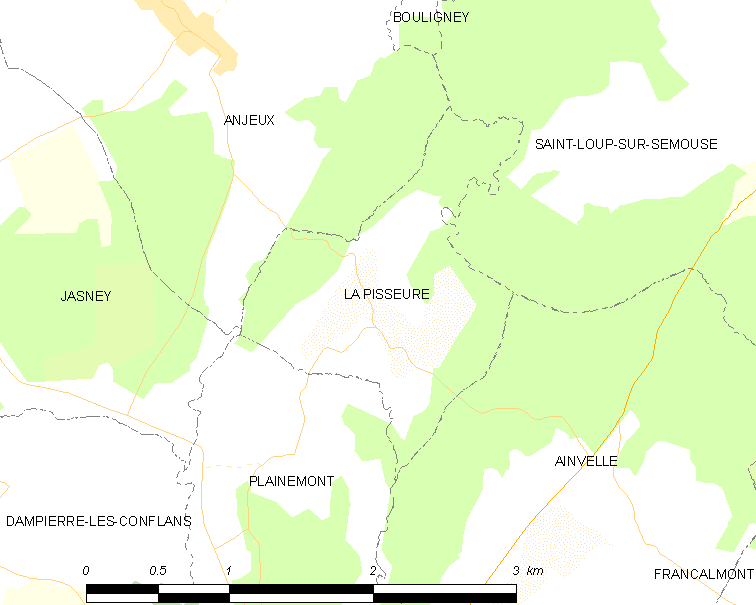 Map of French municipality